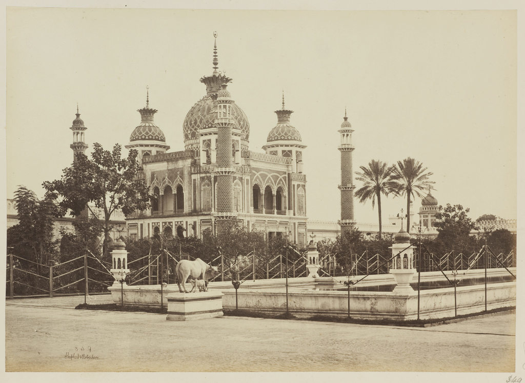 The Jawab opposite the Tomb of Zinat Algiya in the Husainabad Imambara complex, Lucknow